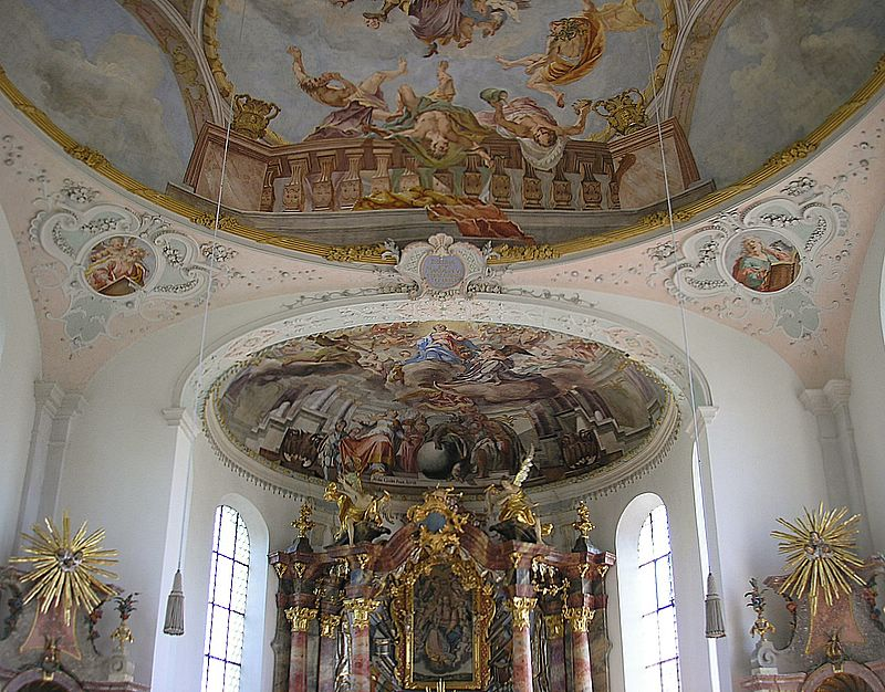 Pilgrimage church Maria Aich (Peissenberg, Landkreis Weilheim-Schongau, Upper Bavaria, Germany). Looking up to the vault